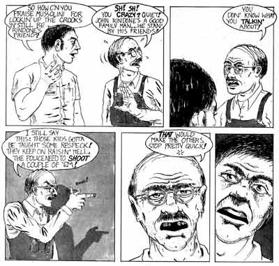 Artwork from underground comix story "May 4-5 1970," American Splendor #2, 1977. Story by Harvey Pekar, Art by Brian Bram.